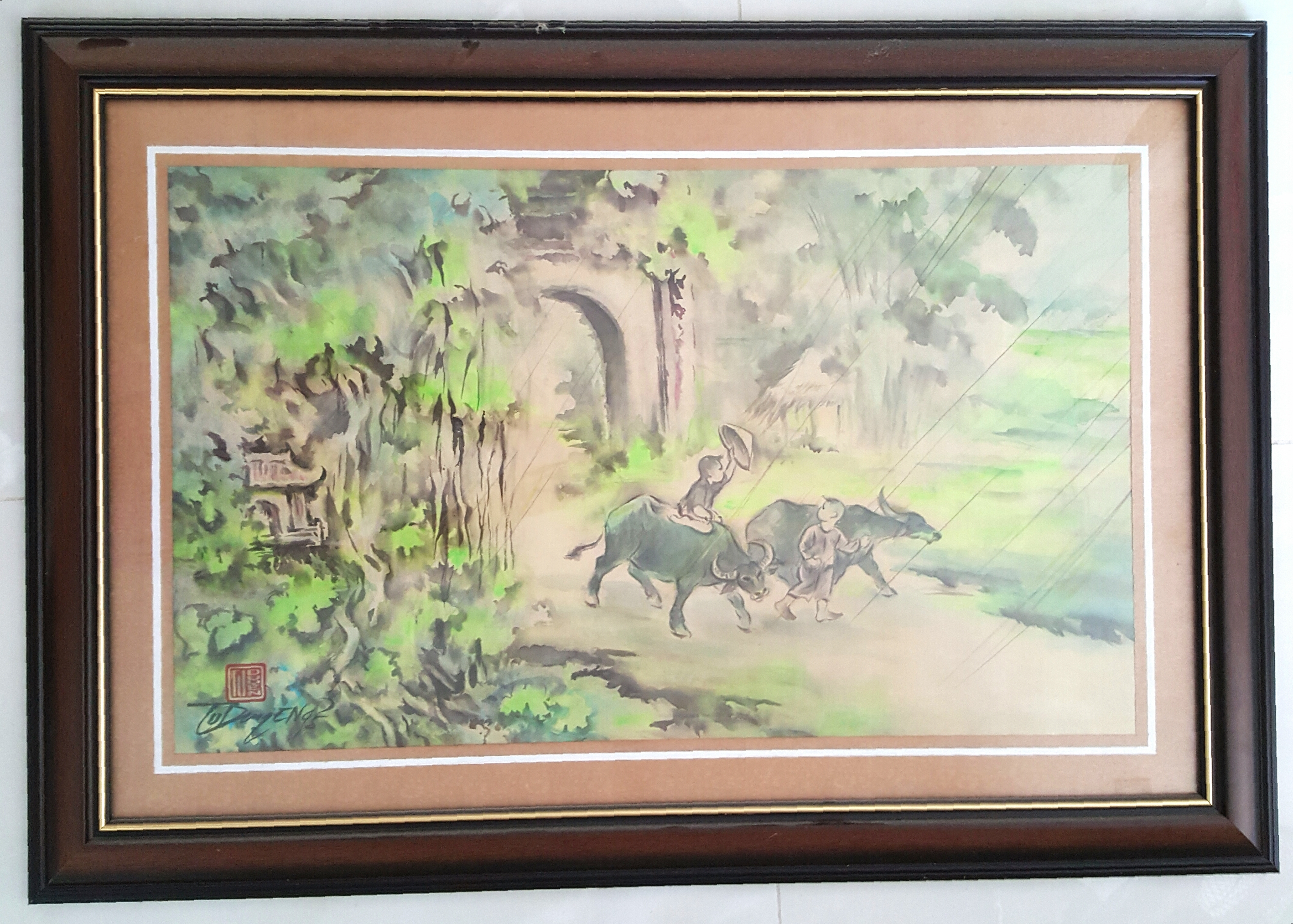 This photo is taken by Vietcuongdao from his niece Đào Lê Như Hạnh's family collection, her mother is one Tú Duyên's relative.